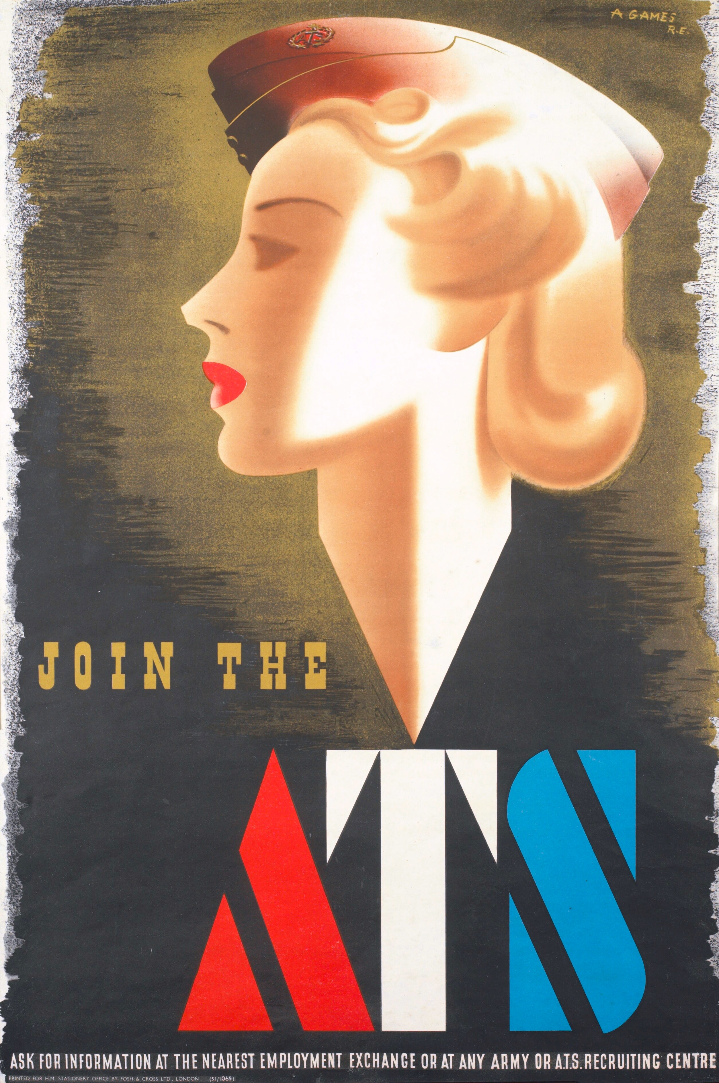 Join the Ats whole: the image is positioned in the upper three-quarters. The title is separate and located in the lower half, in yellow- green, and in red, white and blue. The text is separate and placed along the bottom edge, in white. All set against a green and black background. image: a stylised portrait of a young woman, in profile, wearing an Auxiliary Territorial Service forage cap. text: A. GAMES R.E. JOIN THE ATS ASK FOR INFORMATION AT THE NEAREST EMPLOYMENT EXCHANGE OR AT ANY ARMY OR A.T.S. RECRUITING CENTRE PRINTED FOR H.M. STATIONERY OFFICE BY FOSH and CROSS LTD., LONDON (51/1065)